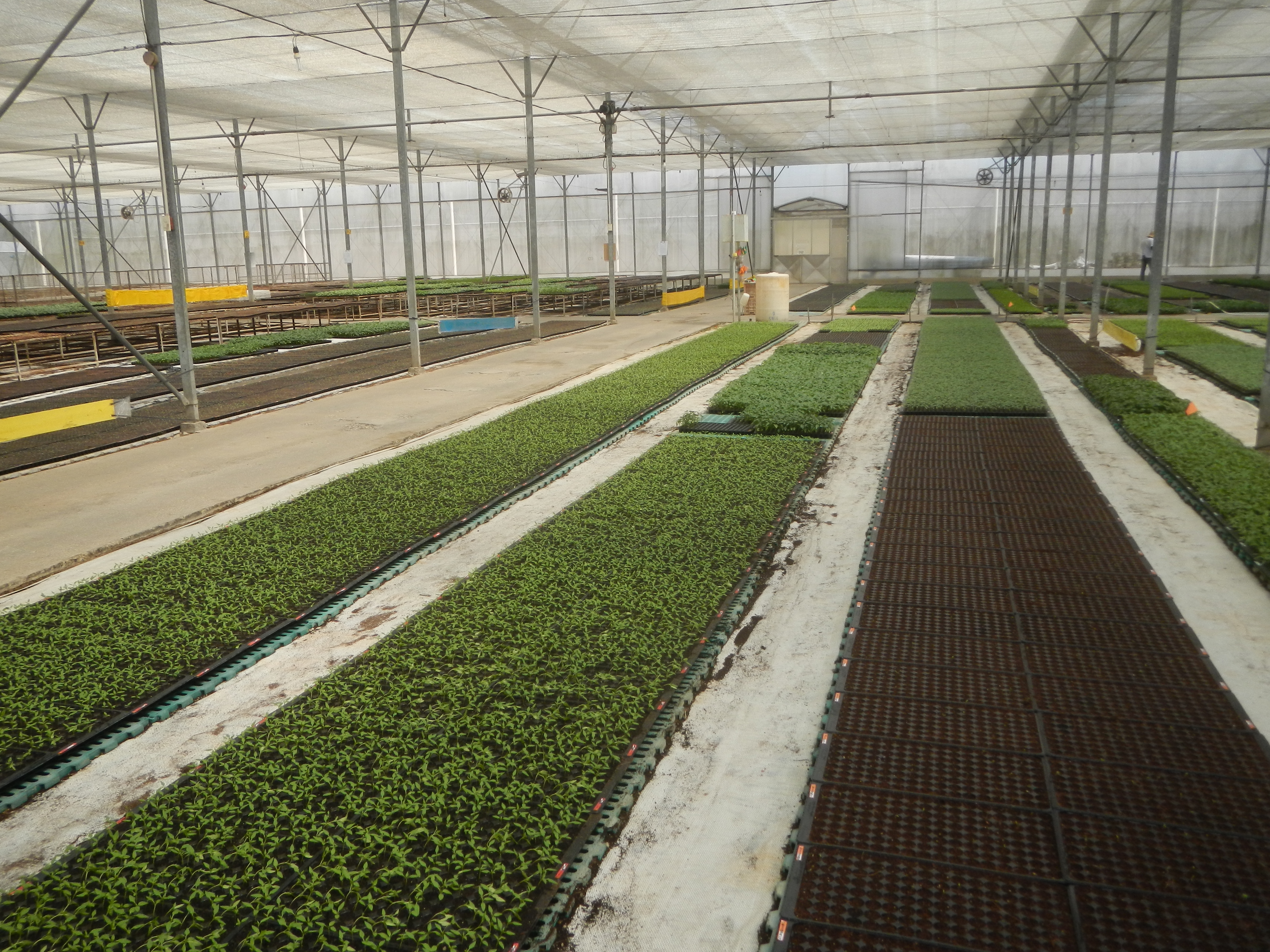 Seed trays in the Philippines Mats in the Philippines Coconut fibres from the Philippines Technological production of seedlings - Greenhouses - Plant nurseries (Farm Ready Seedling Facility - East-West Seed Philippines, San Rafael, Bulacan) East-West Philippines, Farm Ready Seedling Facility (Capihan, San Rafael, Bulacan) inaugurated July 30, 2008 PSOM, EVD Program for Cooperation with Emerging Markets (PSOM). Emerging market in Barangay Capihan, San Rafael 14°59'54"N 120°55'45"E beside Sampaloc 14°58'30"N 120°55'25"E, San Rafael, Bulacan East-West Seed 14°58'30"N 120°55'25"E (Note: Judge Florentino Floro, the owner, to repeat, Donor Florentino Floro of all these photos hereby donate gratuitously, freely and unconditionally Judge Floro all these photos to and for Wikimedia Commons, exclusively, for public use of the public domain, and again without any condition whatsoever).